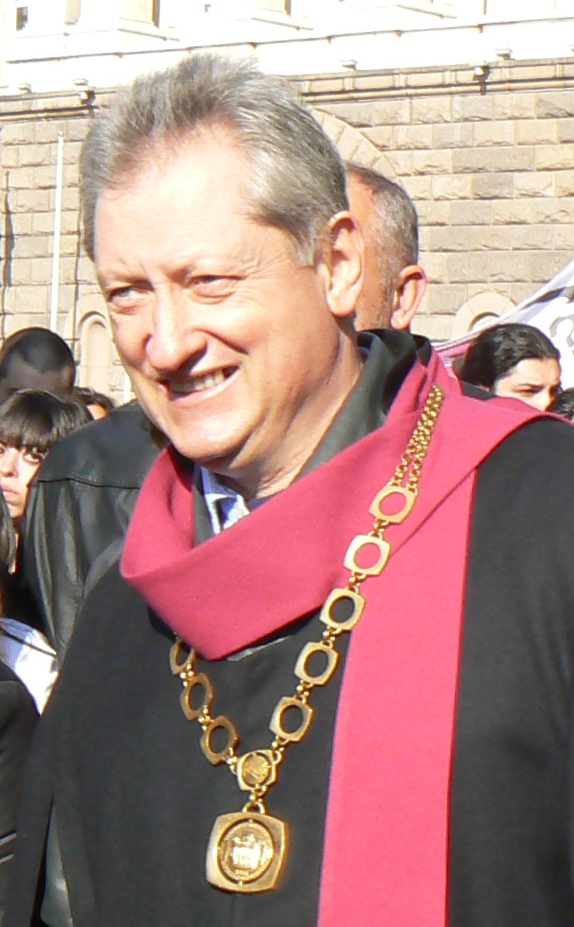 Prof. Bozhidar Angelov, Sofia University